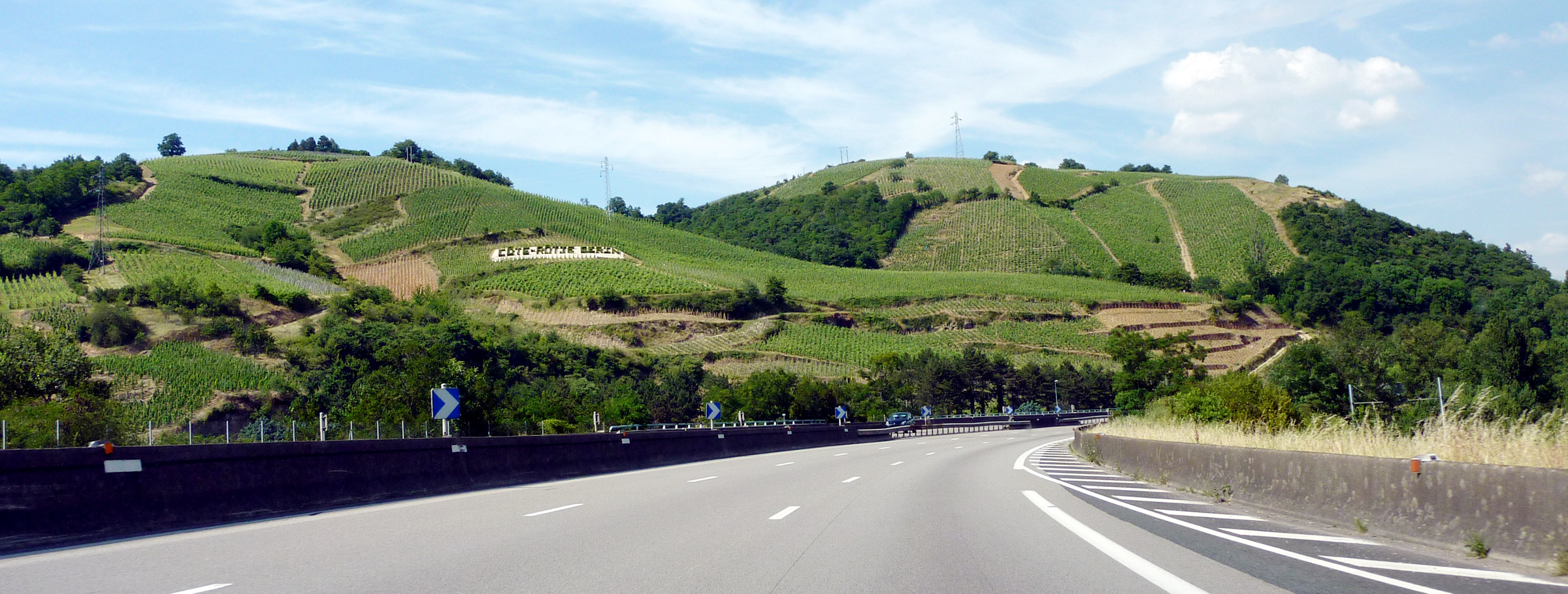 Autoroute A7 near Vienne